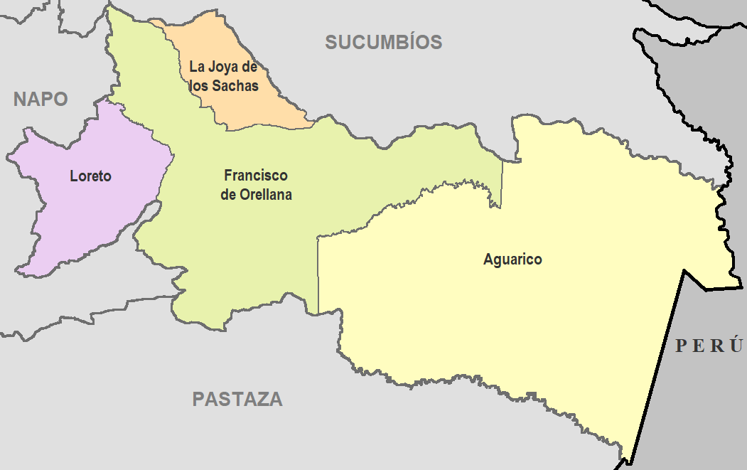 Cantons of Orellana